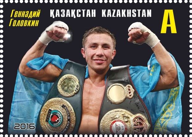 Gennady Golovkin